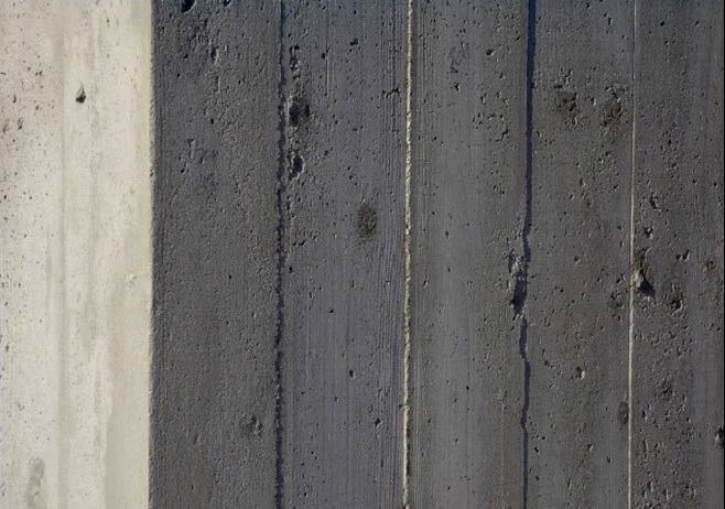 Effect of distance for the assessment of architectural concrete 4